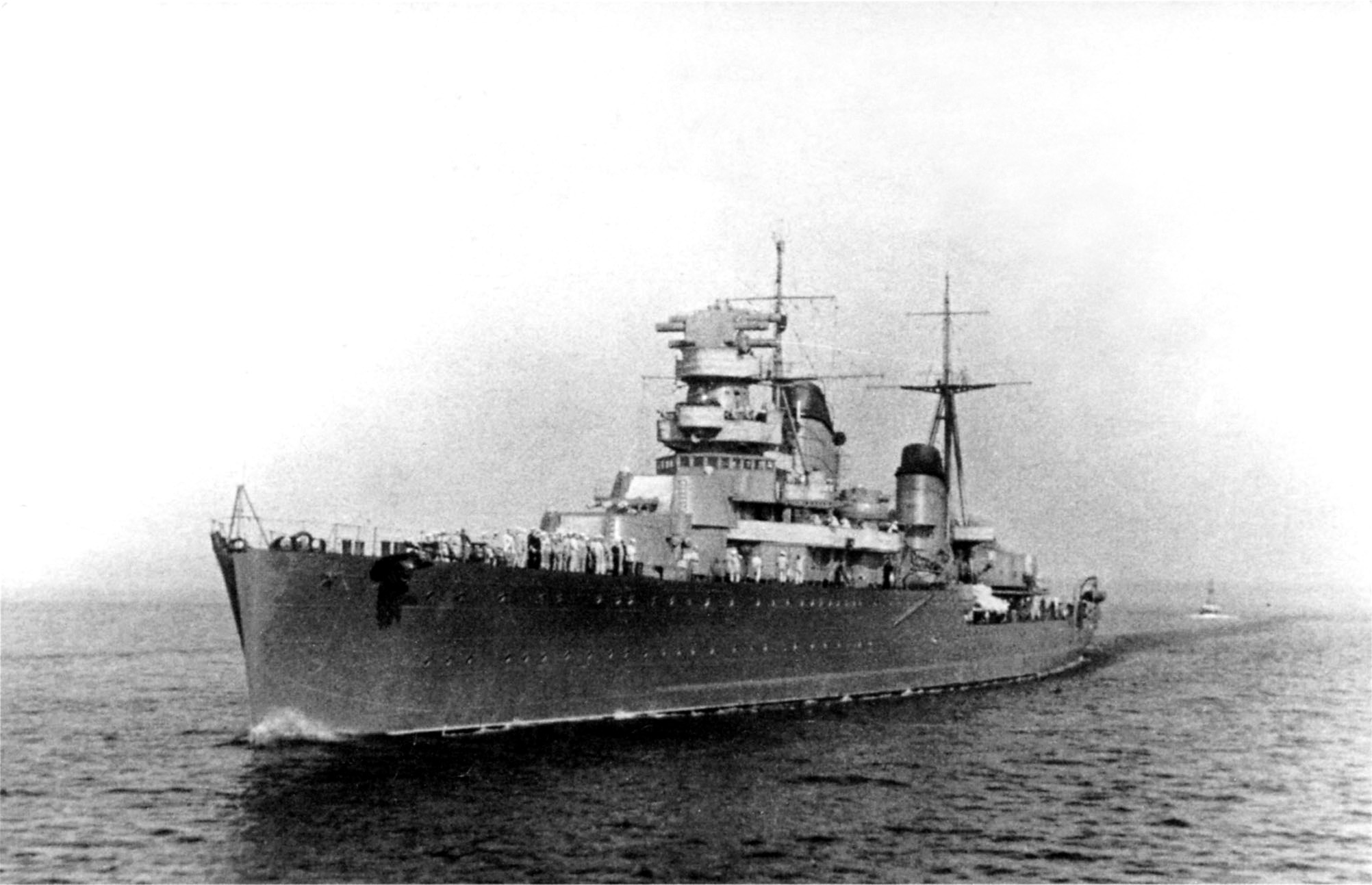 The Soviet cruiser Maksim Gor'kiy, 1941.